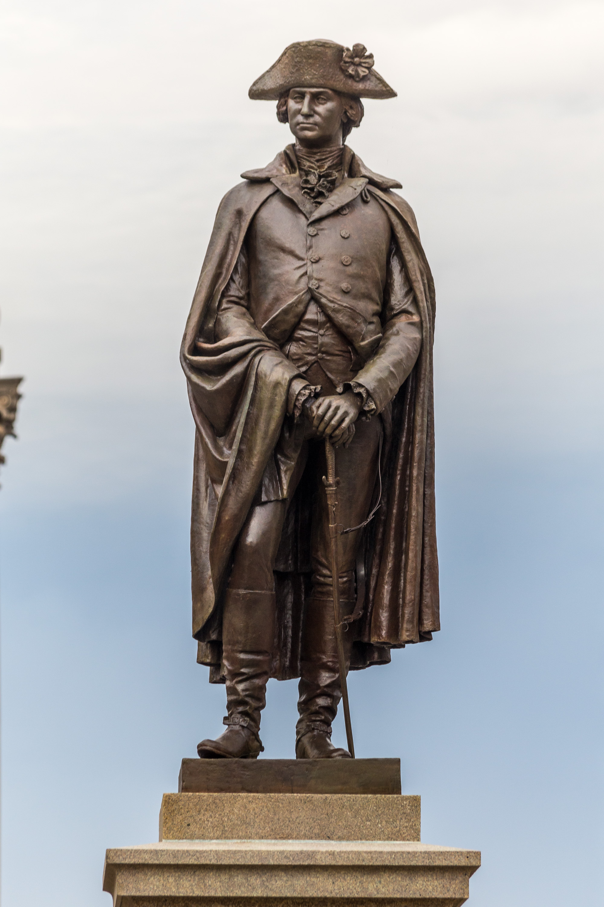 George Washington Statue, Milwaukee, Wisconsin. Richard Henry Park, 1885.